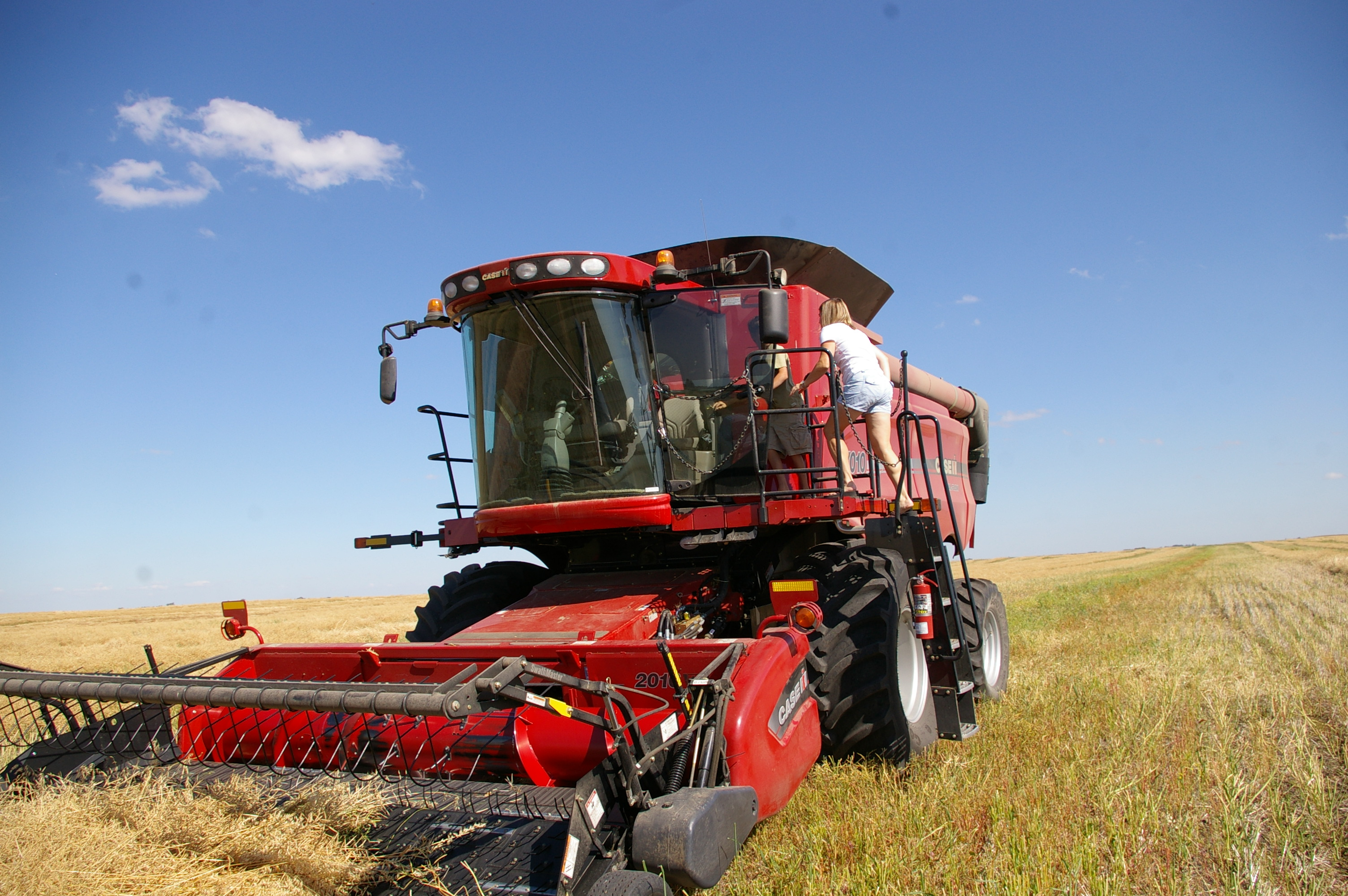 Case 7010 combine harvesting rape